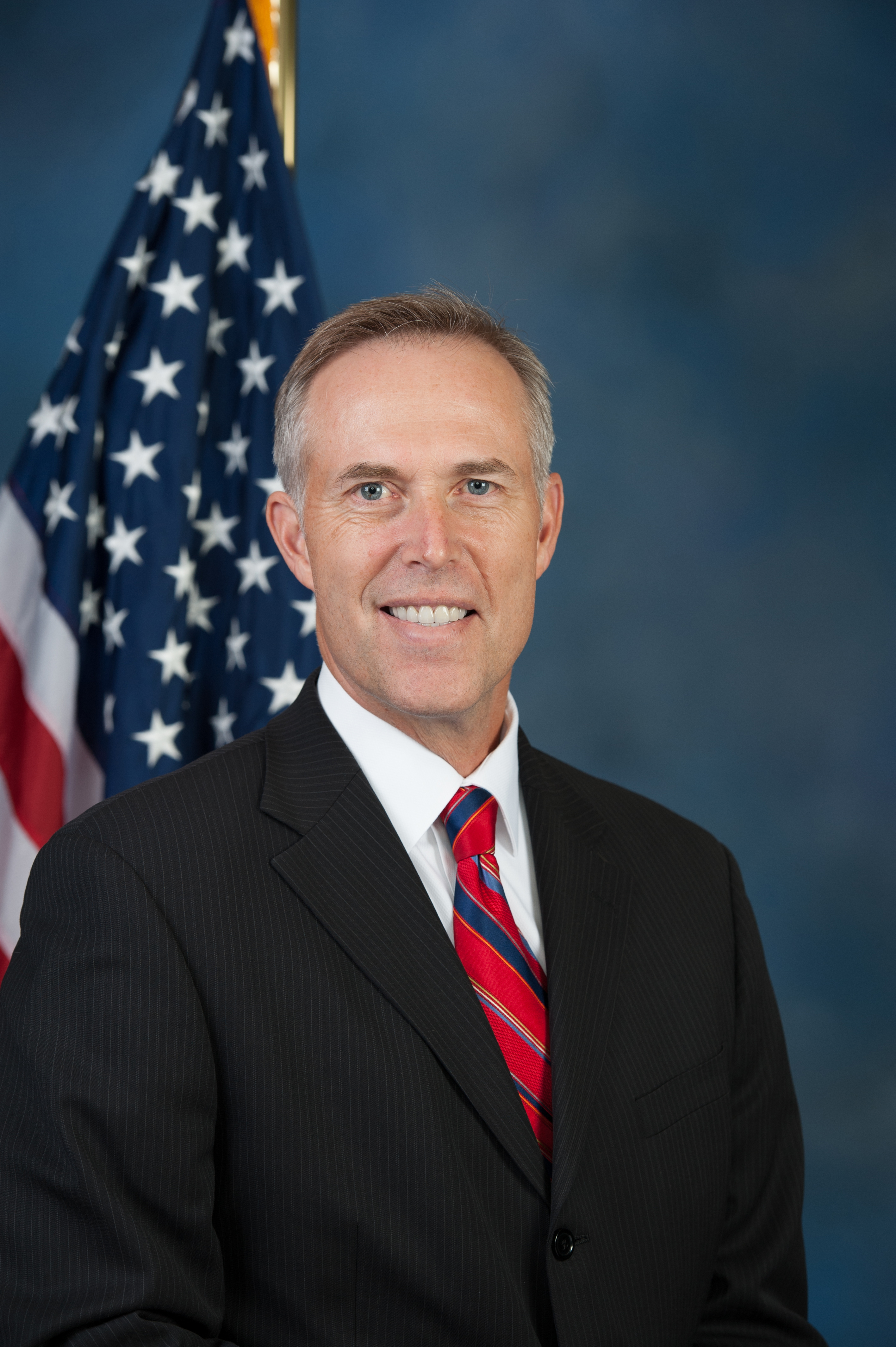 US Congressman Jared Huffman